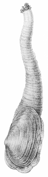 Mya arenaria, with animal.